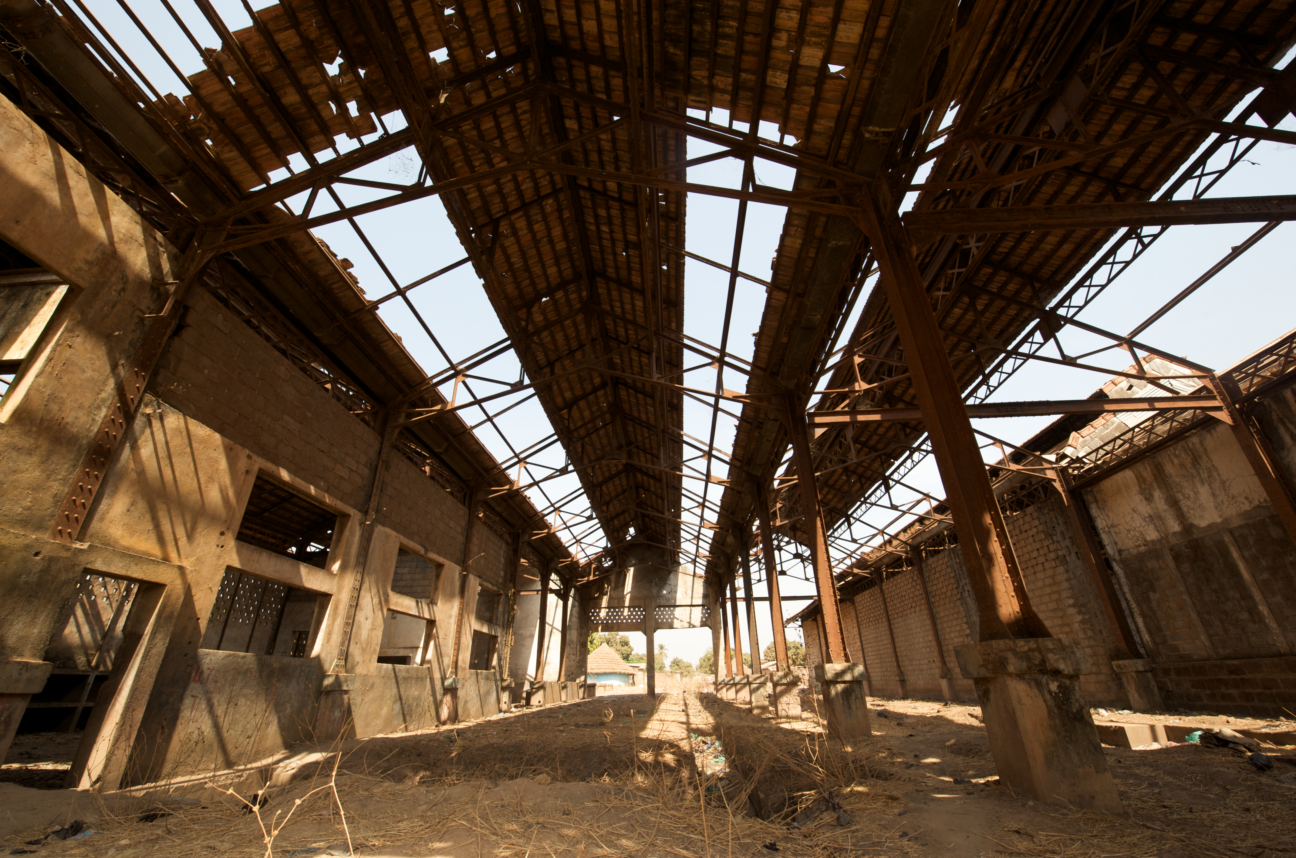 Conakry railway station. The French built a railway from Conakry through Kankan and onto Mali. Unlike the railway on the coast there is no bauxite here and so no companies to ensure the railway stayed open. It closed down twenty years ago. Apparently a minister flogged the rails to a trader, he was arrested when the junta took power in December 2008. The railway buildings linger on abandoned, echoes of provincial France now past.